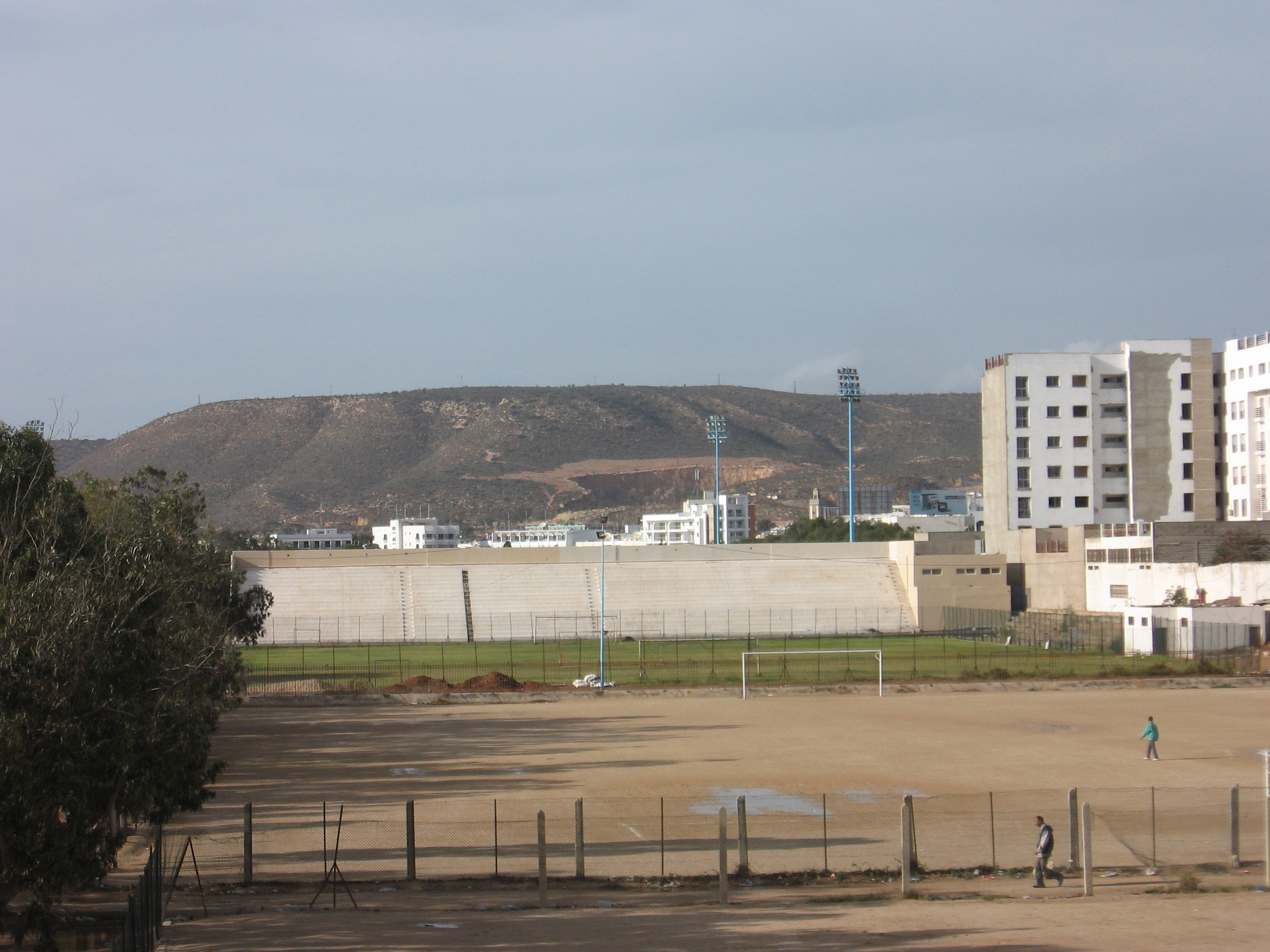 Stade Al Inbiaâte